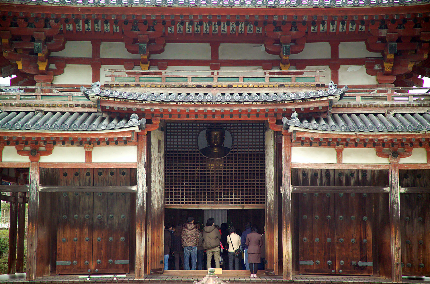 This closeup of the Phoenix Hall of the Byodo-in, a temple in the city of Uji, Kyoto prefecture, shows the statue of Amida Buddha visible through the round window. I took the photo and contribute my rights in the file to the public domain; individuals and organizations retain rights to images in the file.